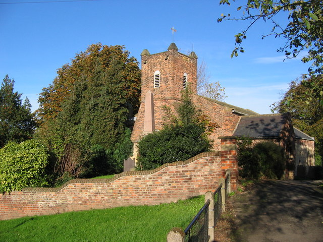 St. Michael's Church, Skidby, East Riding of Yorkshire, England.View NE from TA01483364.